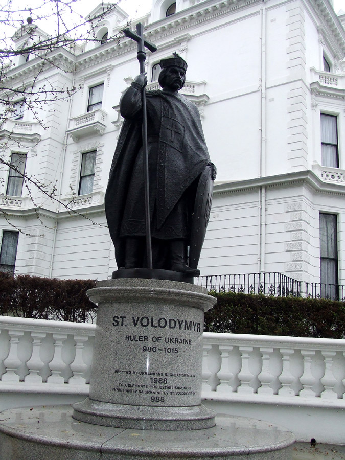 Monument to Volodymyr the Great in Holland Park, London, United Kingdom